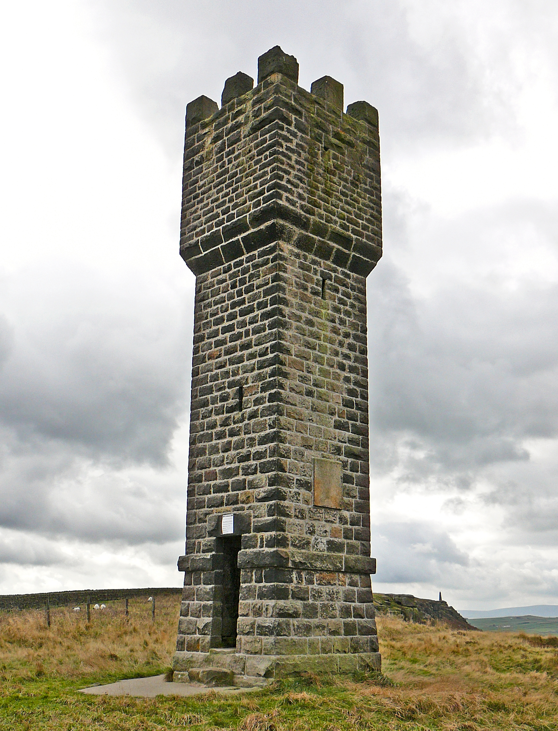 Wainman's Pinnacle in the distance